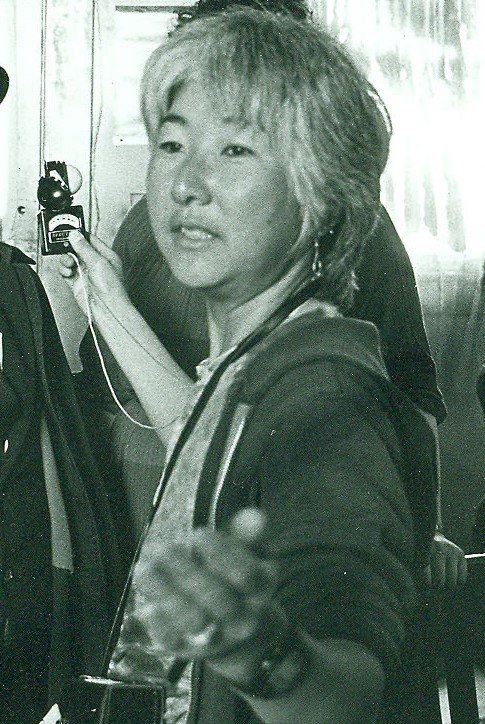 Cinematographer and film director Emiko Omori takes a light reading off actor Victor Wong's face on location in an indie film in San Francisco, California, 1983.